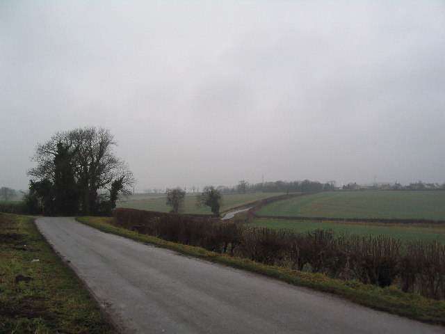 Road to Burton-le-Coggles